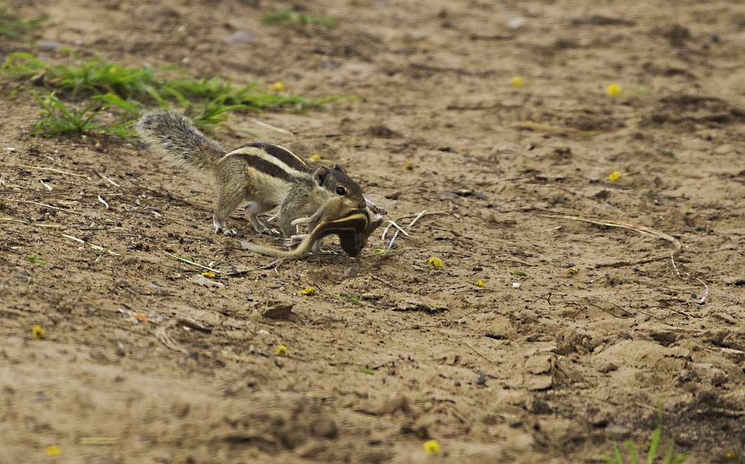 Photographed was taken near Deva village, Anand. A Five-striped palm squirrel refuses to leave her dead baby, carried this dead baby in its mouth for over ten minutes and finally took her away into the hedge.